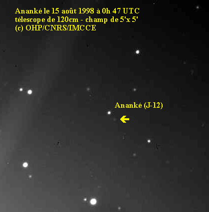 Ananke (Jupiter XII) photographed by the OHP (Observatoire de Haute-Provence) on 15 August 1998 at 0h47 UTC. Some light from Jupiter streams in from the lower left.